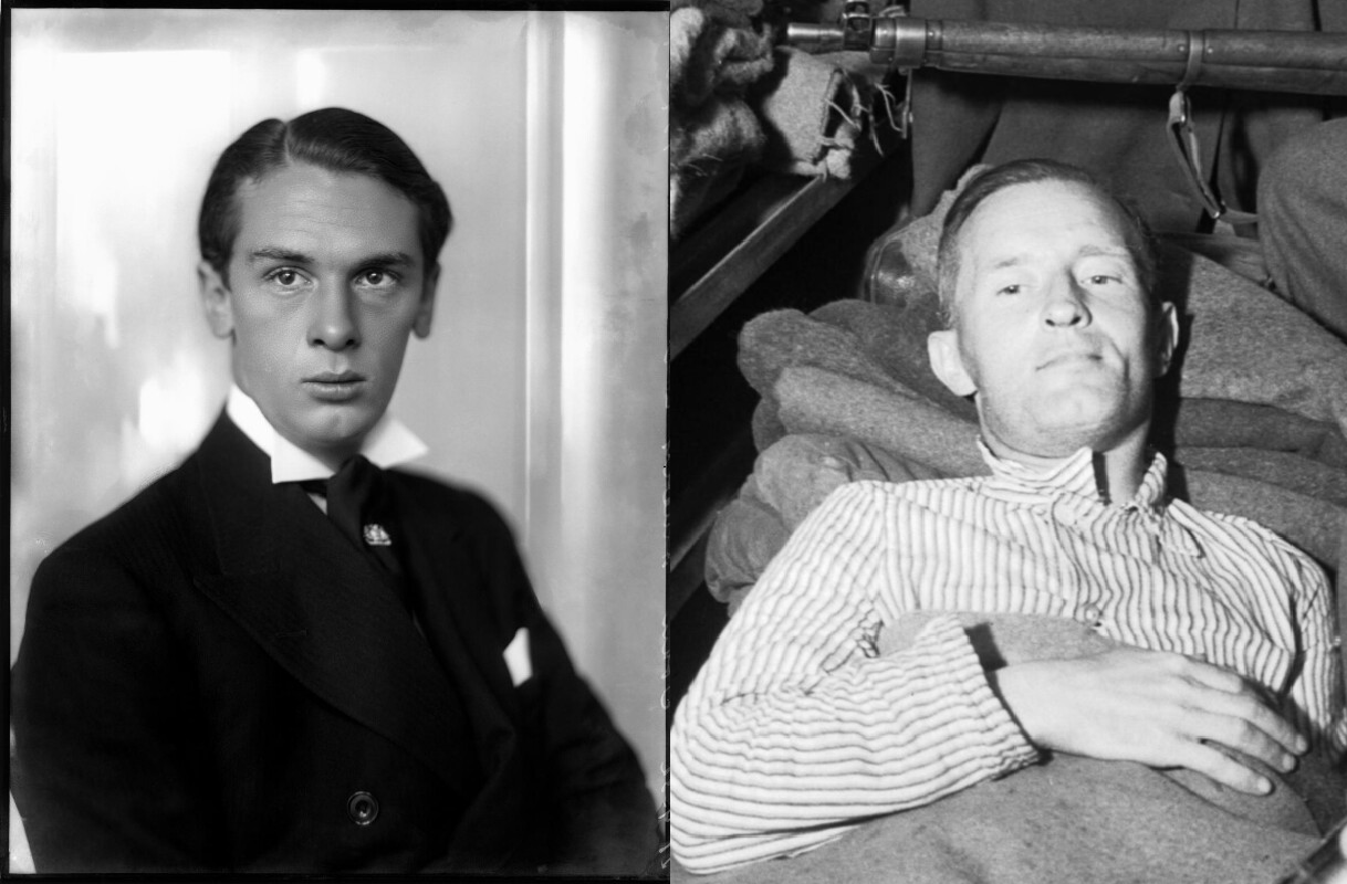 Two of those convicted of treason by British courts after the Second World War: John Amery (left) and William Joyce (right)